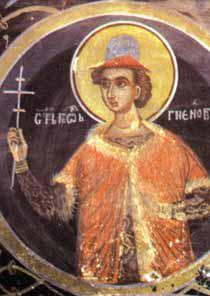 Фреска Св. Ѓорѓи Кратовски, црква „Св. Атанасиј Александриски“ во с. Журче